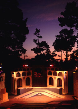 Historic Outdoor Forest Theater, Carmel, CA. Sun sets over the stage, setting for Carmel Shake-speare Festival production of Julius Caesar, produced by Pacific Repertory Theatre